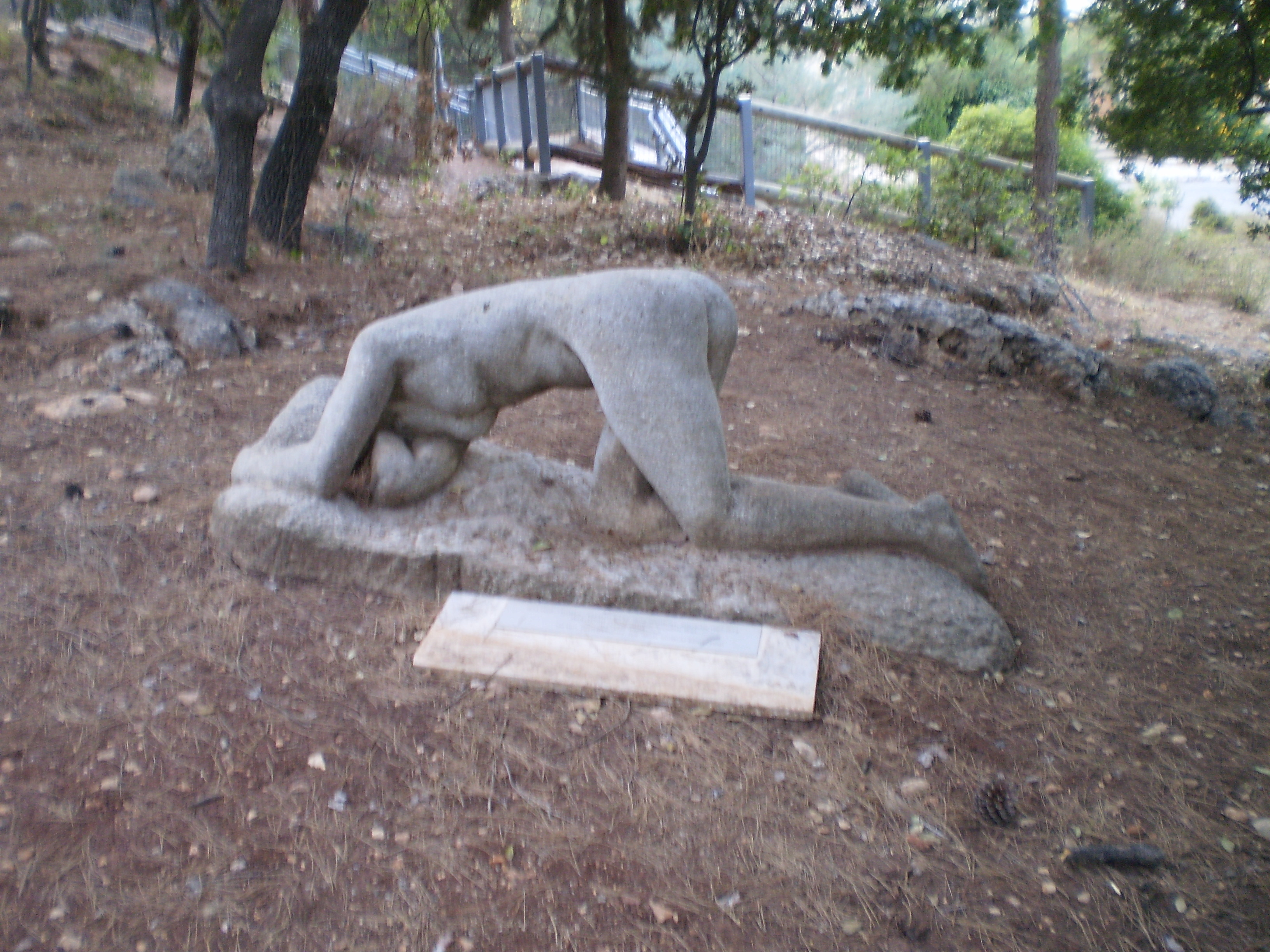 Fritz Wotruba, Falling Woman, 1944, at Amirim sculpture garden, Israel